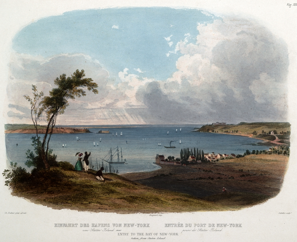 Aquatint by Karl Bodmer (1809 - 1893)